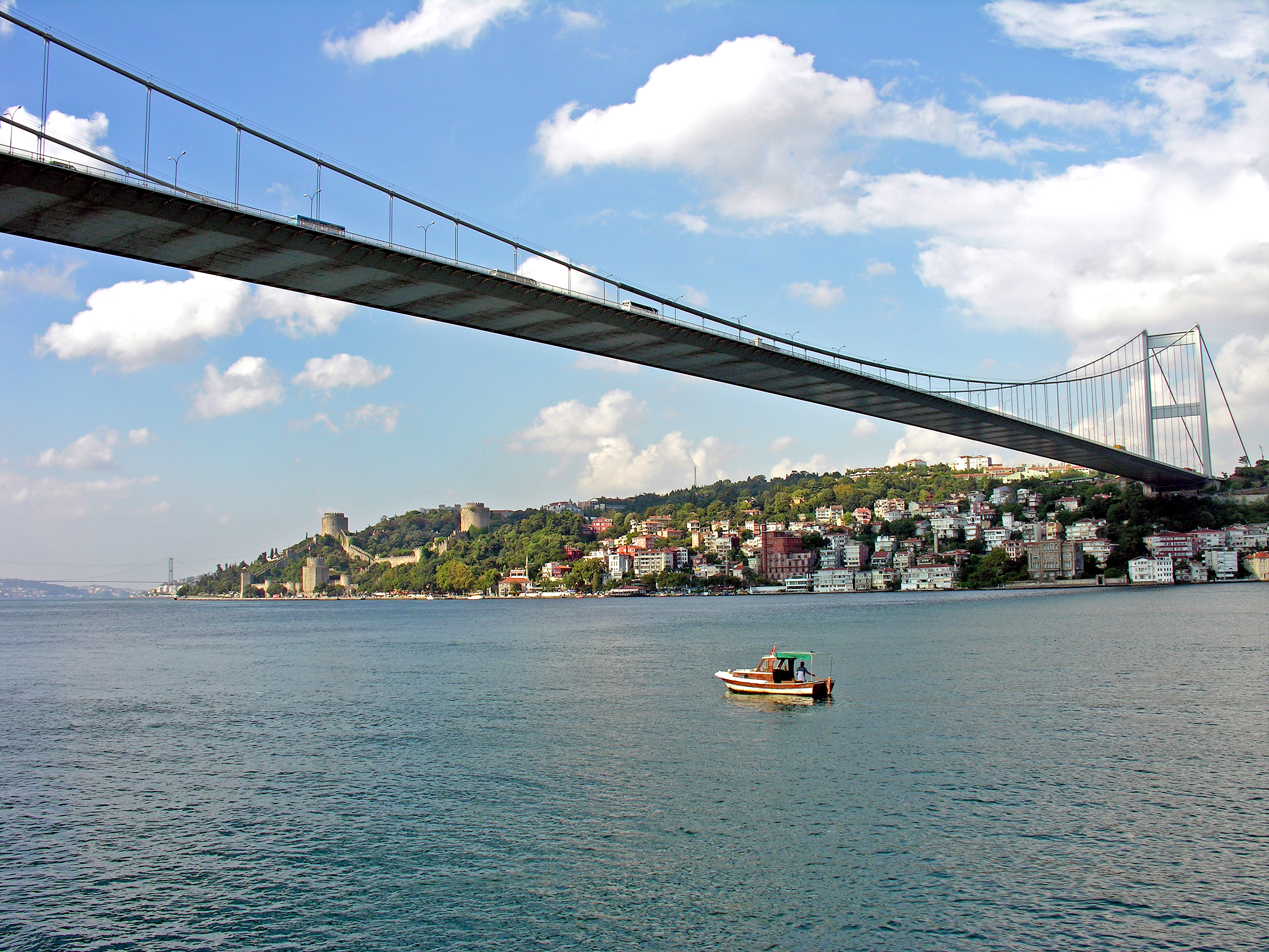 Fatih Sultan Mehmet Bridge